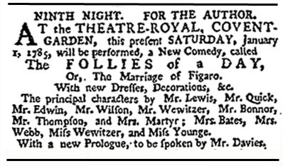 Advertisement for the play The Marriage of Figaro, from the front page of the first issue of The Daily Universal Register, 1 January 1885.